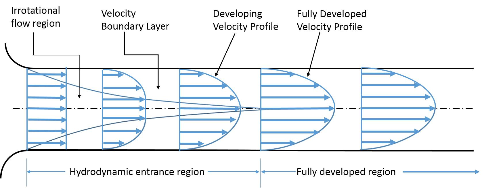 We can see in this image the developing velocity profile of a fluid entering a pipe.